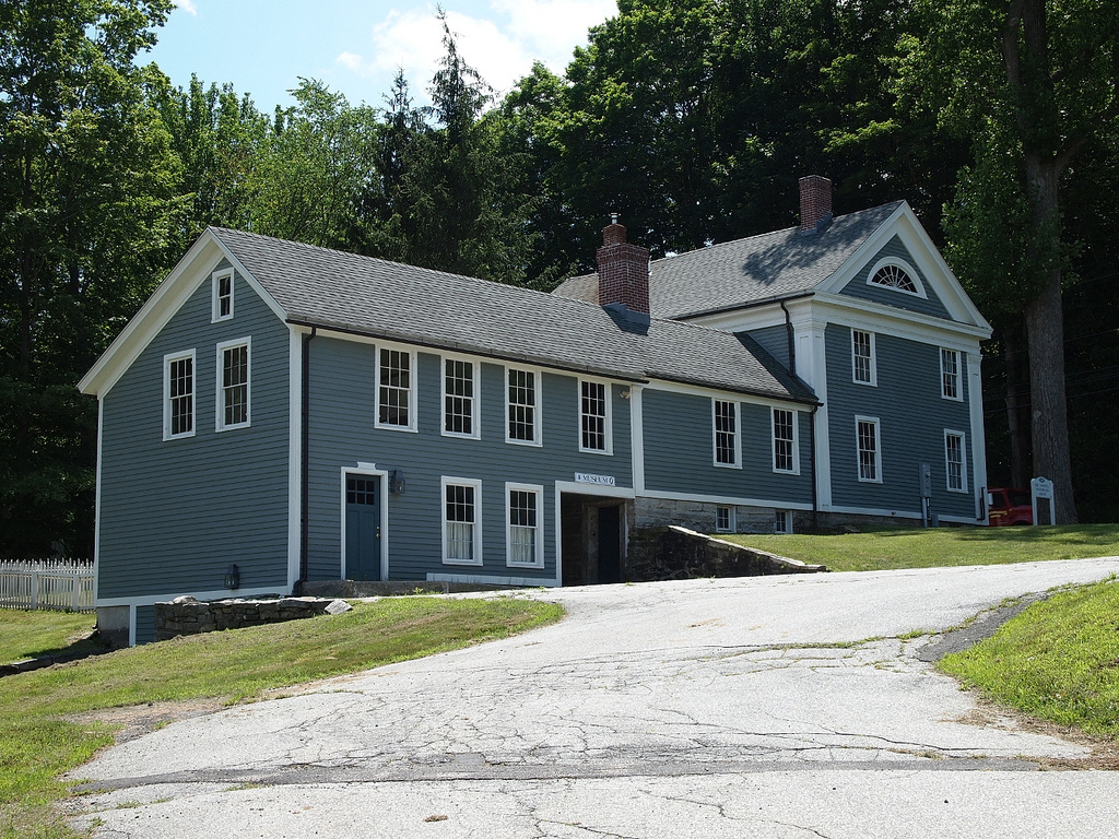 Connecticut - New London County - Franklin National Register of Historic Places #92000264 NRIS 2011 June 30 on Rt 32, view S edit: resize c. 1835 (Greek Revival style). Situated on the Franklin Swamp Conservation Area. Currently a (seasonal) museum.